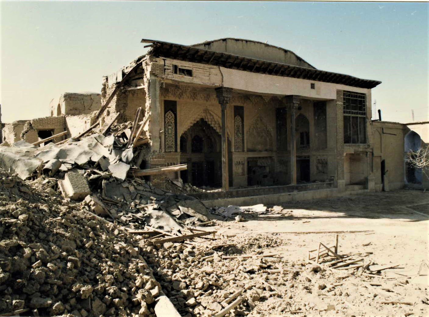 House of Sheikholeslam of Esfahan bombarded during the Iran-Iraq War in 1986 and its south east corner completely destroyed with its decorations